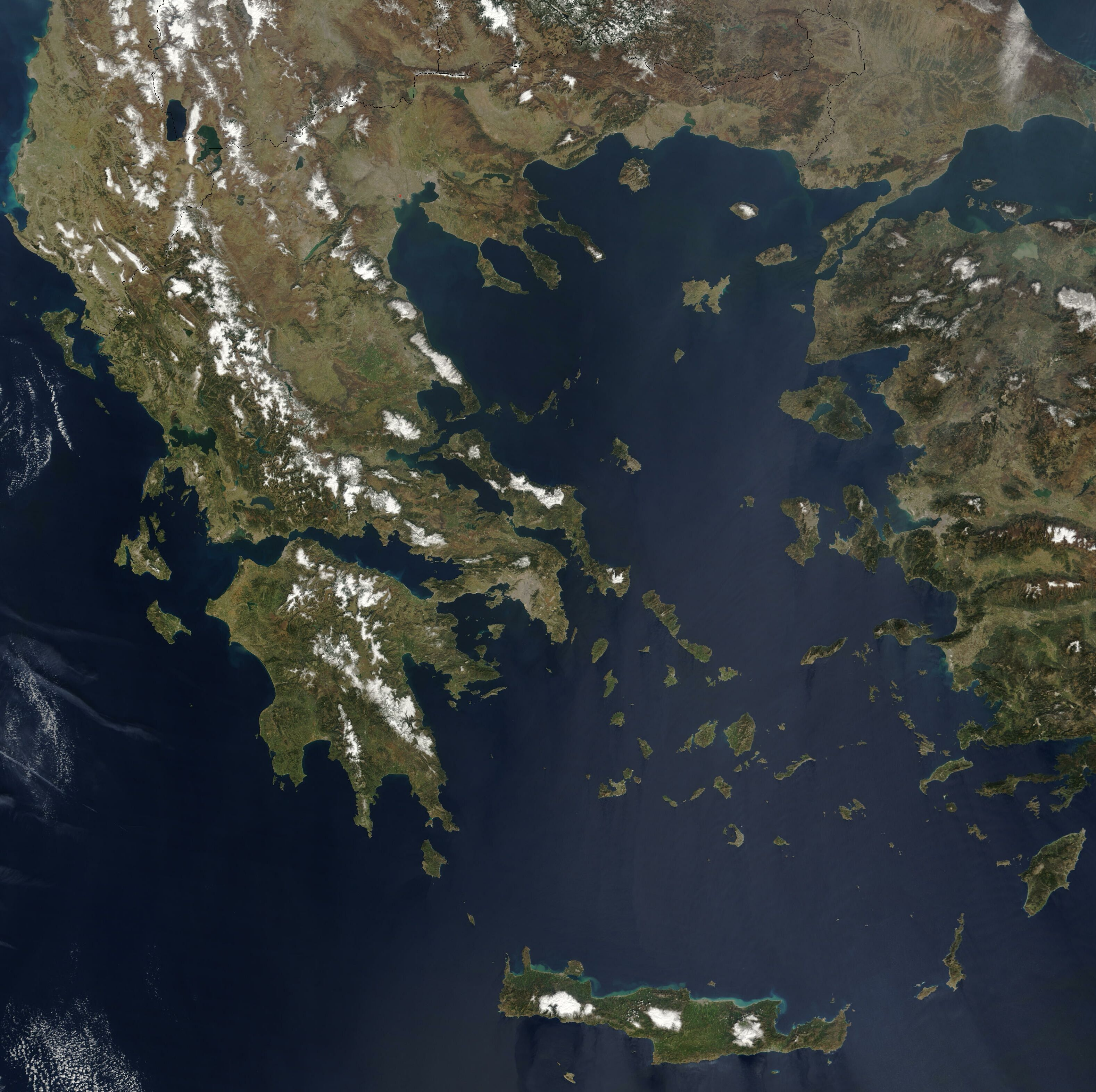 Satellite image of Greece in March 2003.